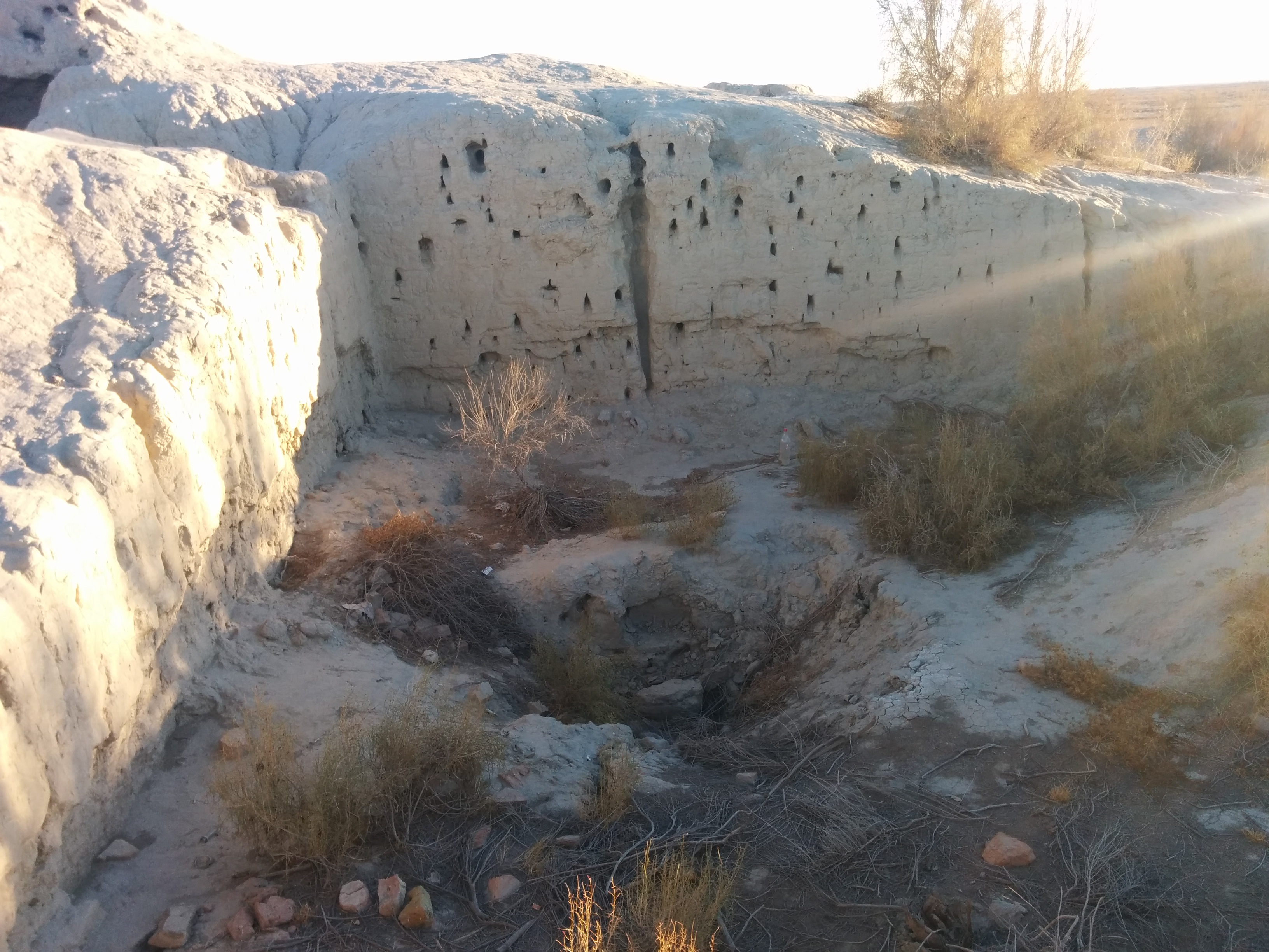 Varakhsha ruins